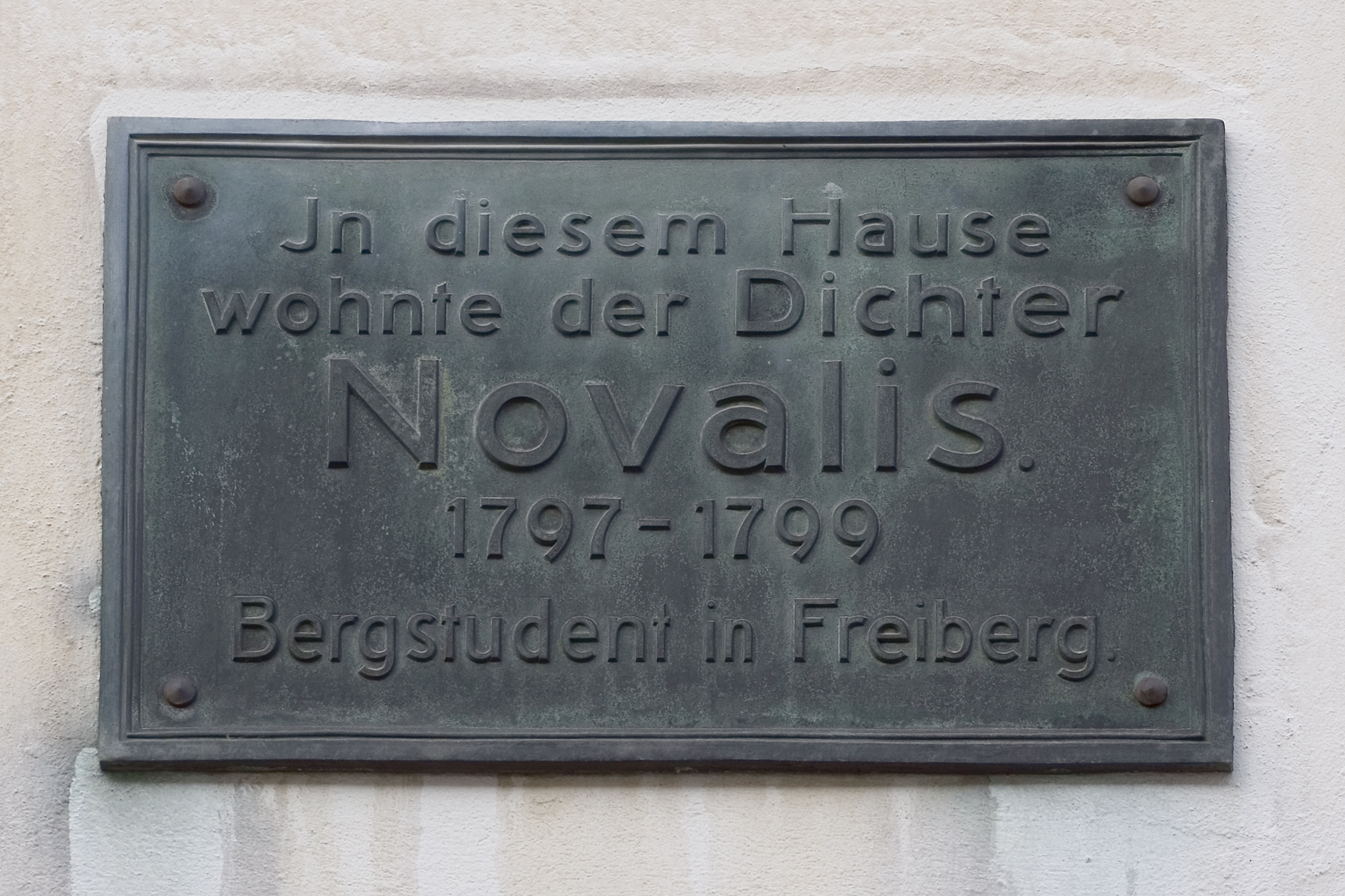 Novalis, plaque in Freiberg, on the house where he lived